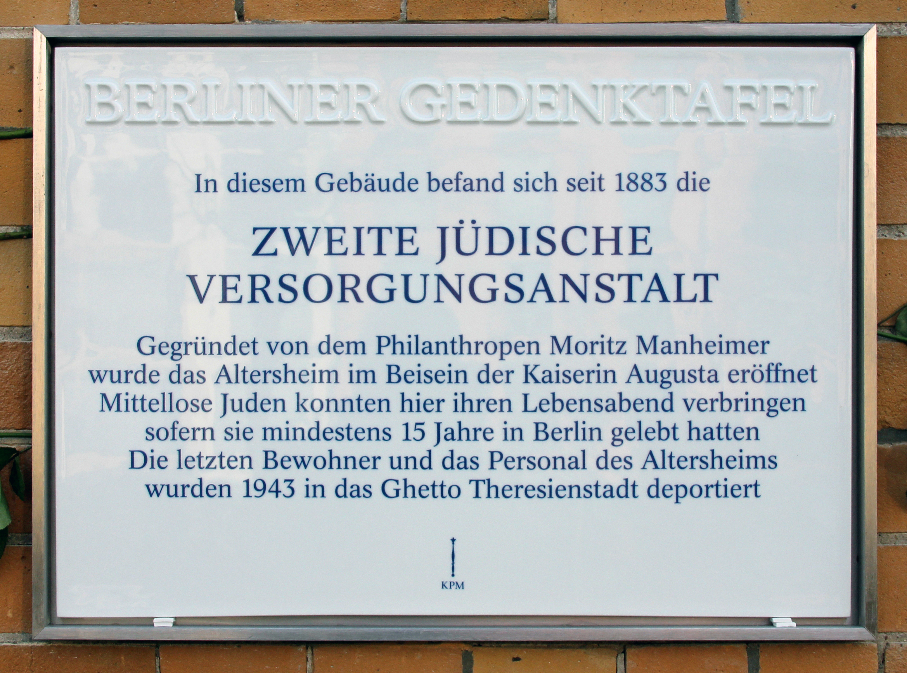 Berlin memorial plaque, Jüdische Versorgungsanstalt, Schönhauser Allee 22, Berlin-Prenzlauer Berg, Germany